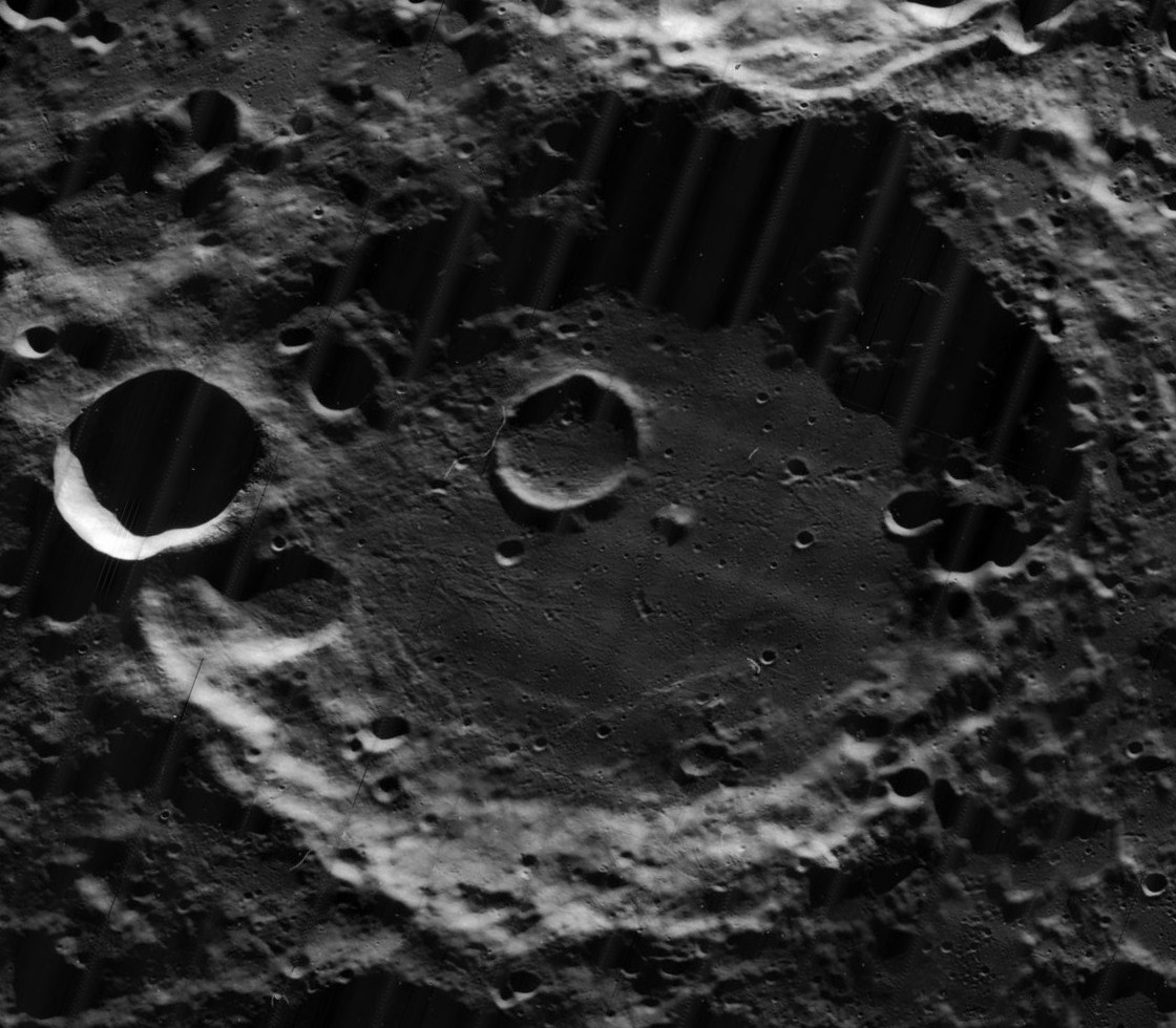 Oblique view of Stefan, on the far side of the moon, facing west.